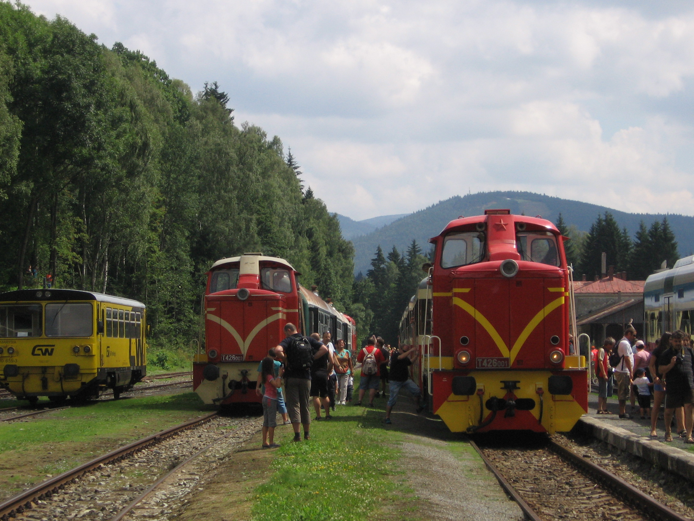 810.659, T 426.003 a T 426.001 in Kořenov